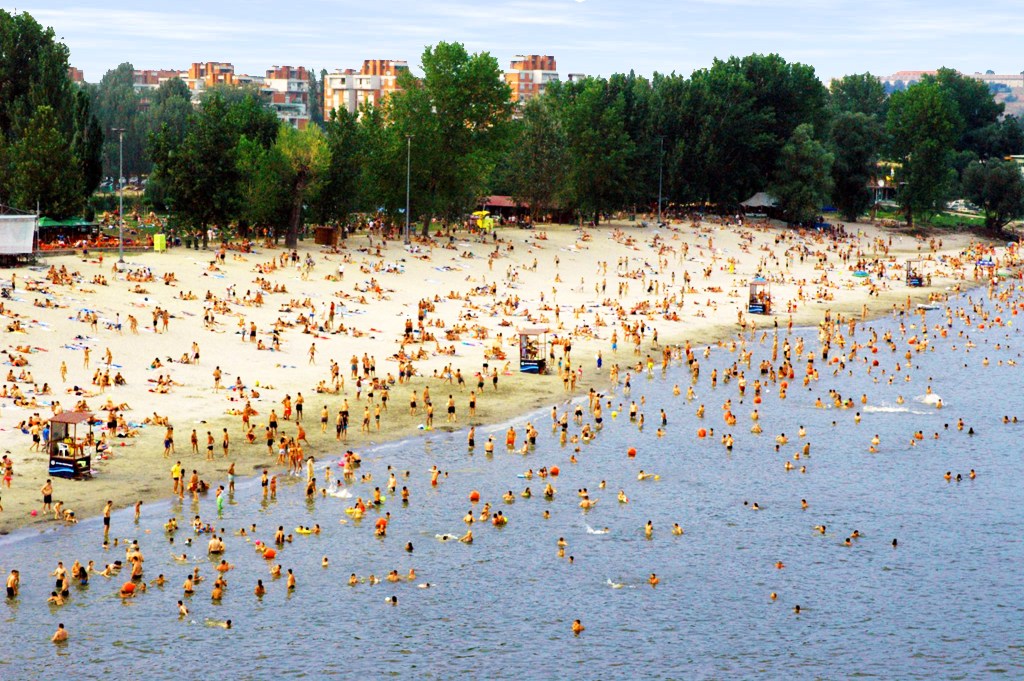 Štrand in Novi Sad (beach on the Danube river), Serbia